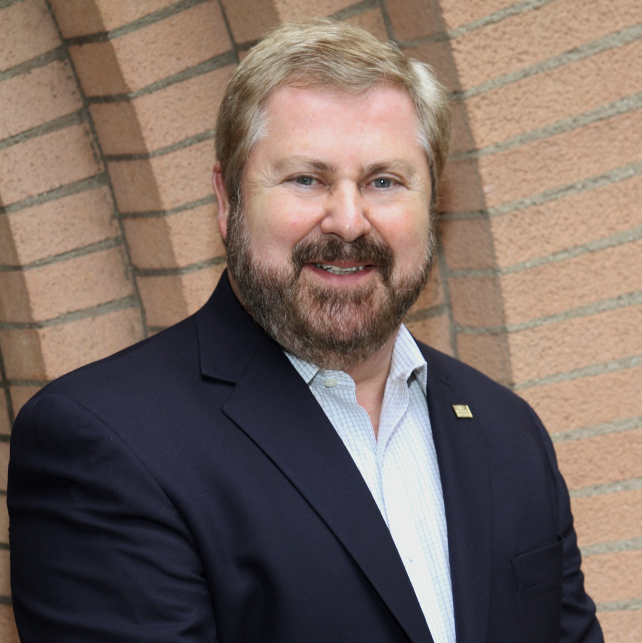 Kevin J.A. Davies, Ph.D., D.Sc. by Christine McDowell/The Image Artist